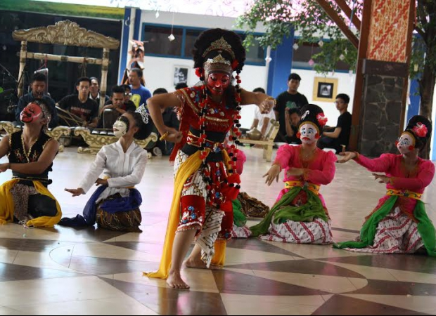 Tari Topeng di ISBI